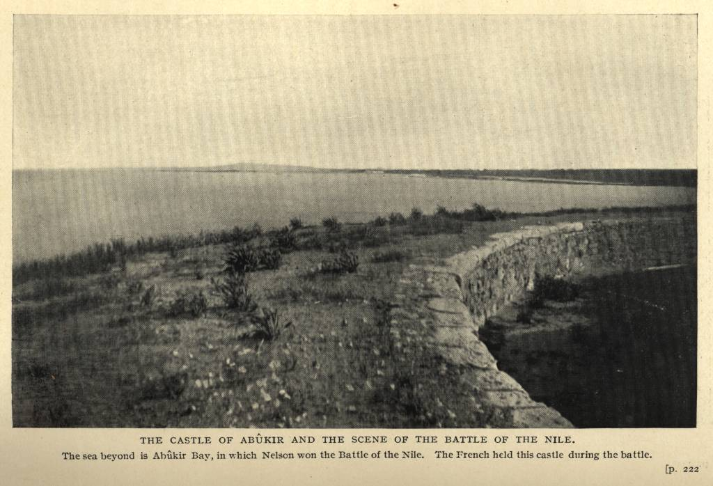 A view of a low stone wall by a body of water